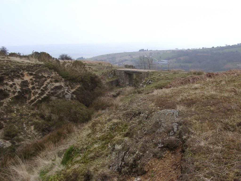 Cowlyd Tramway, at the point where it passes Ardda mine